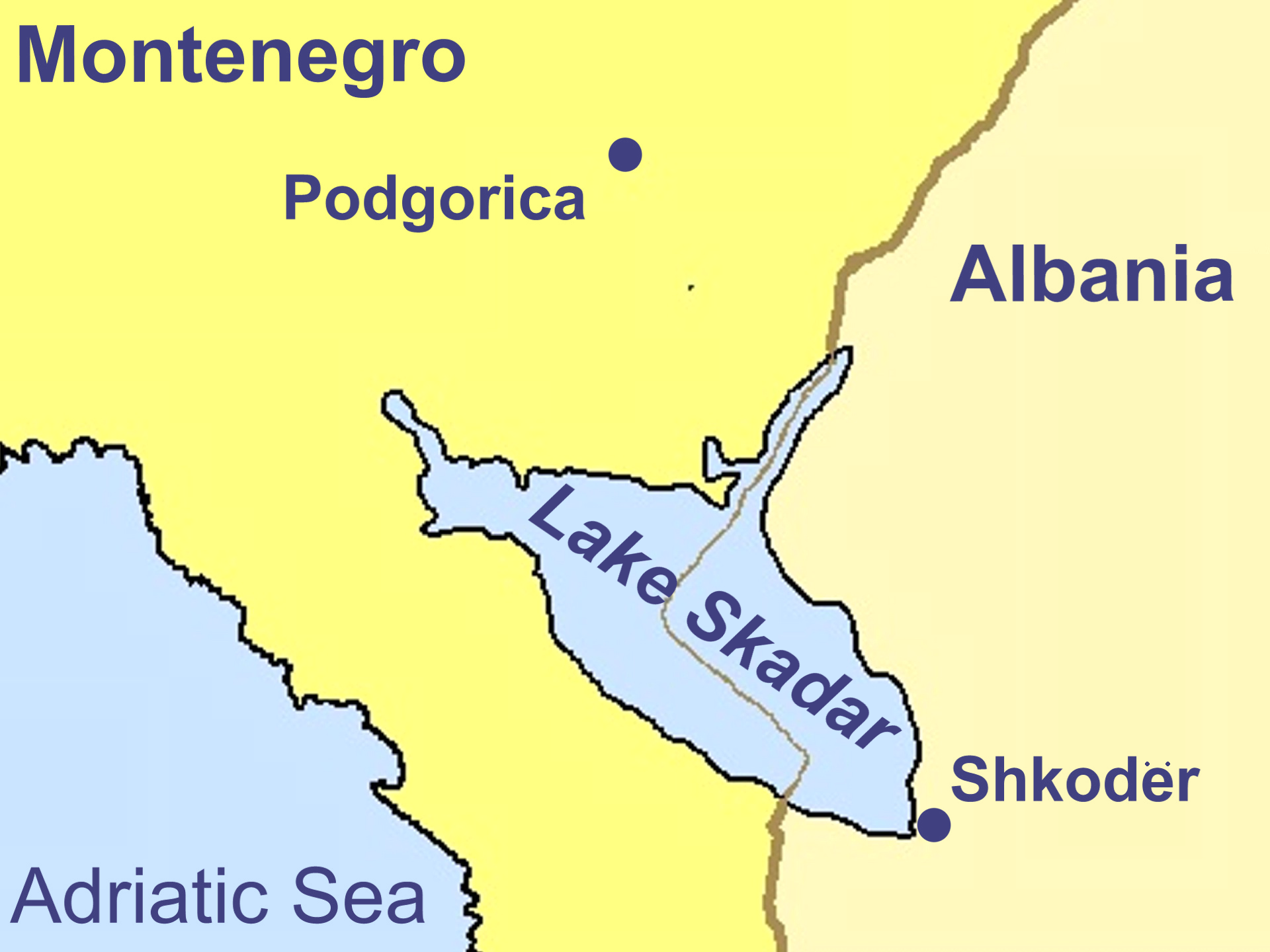 Map of Scutari Lake. Public domain satellite imagery for the geographic outline used, with hand-drawn border and towns.